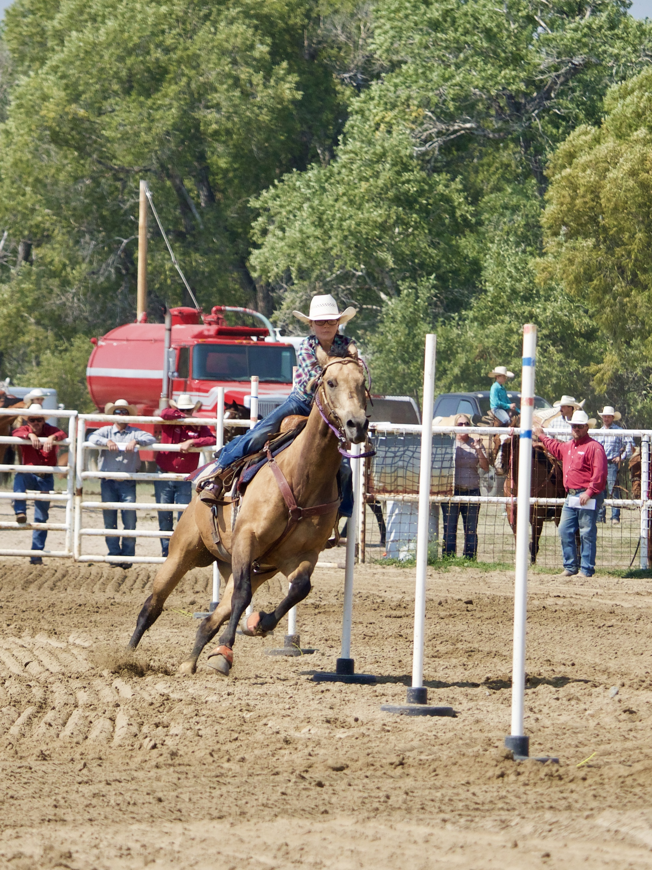 Pole bending competition at the Wyoming Junior Rodeo, Glenrock, Wyoming, August 19-20, 2017